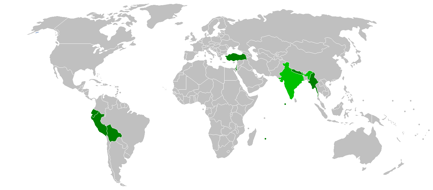 World operators of HAL Dhruv by 2009